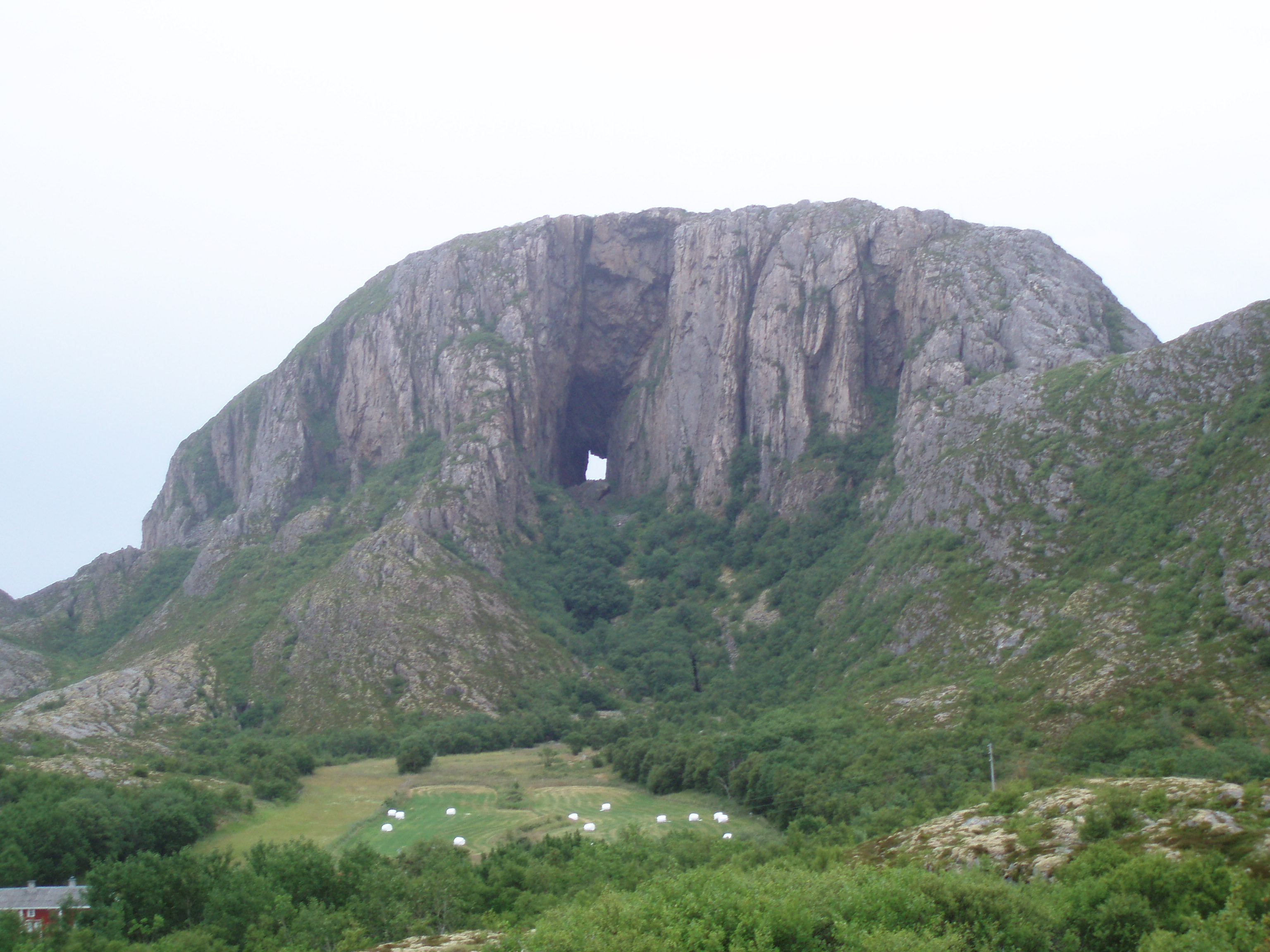 The characteristic mountain Torghatten in the northern part of Norway, you can see the hole in the mountain.